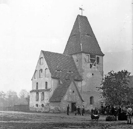 Old church in Leipzig-Lindenau, Rossstrasse